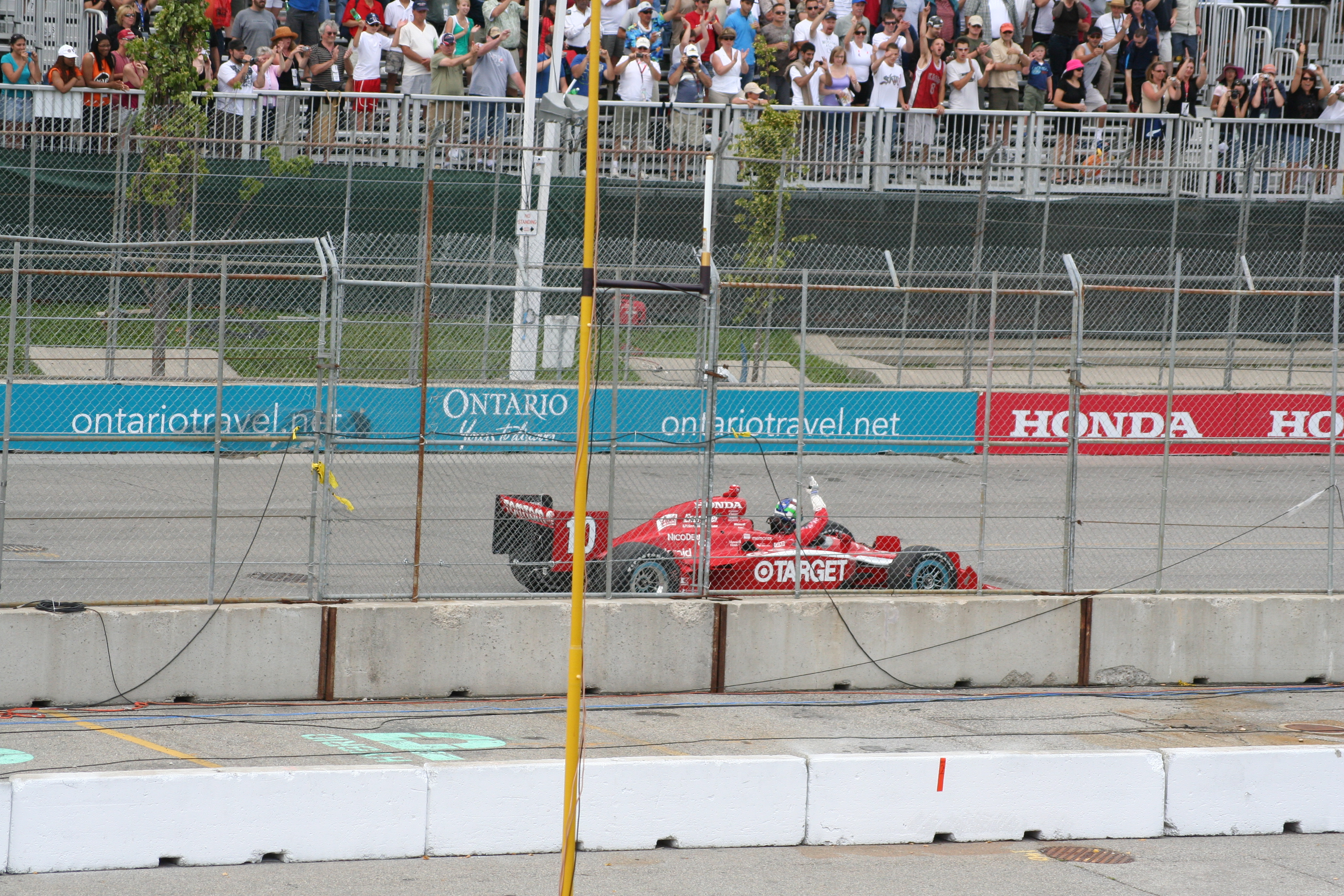 Got last minute tickets for the Indy!